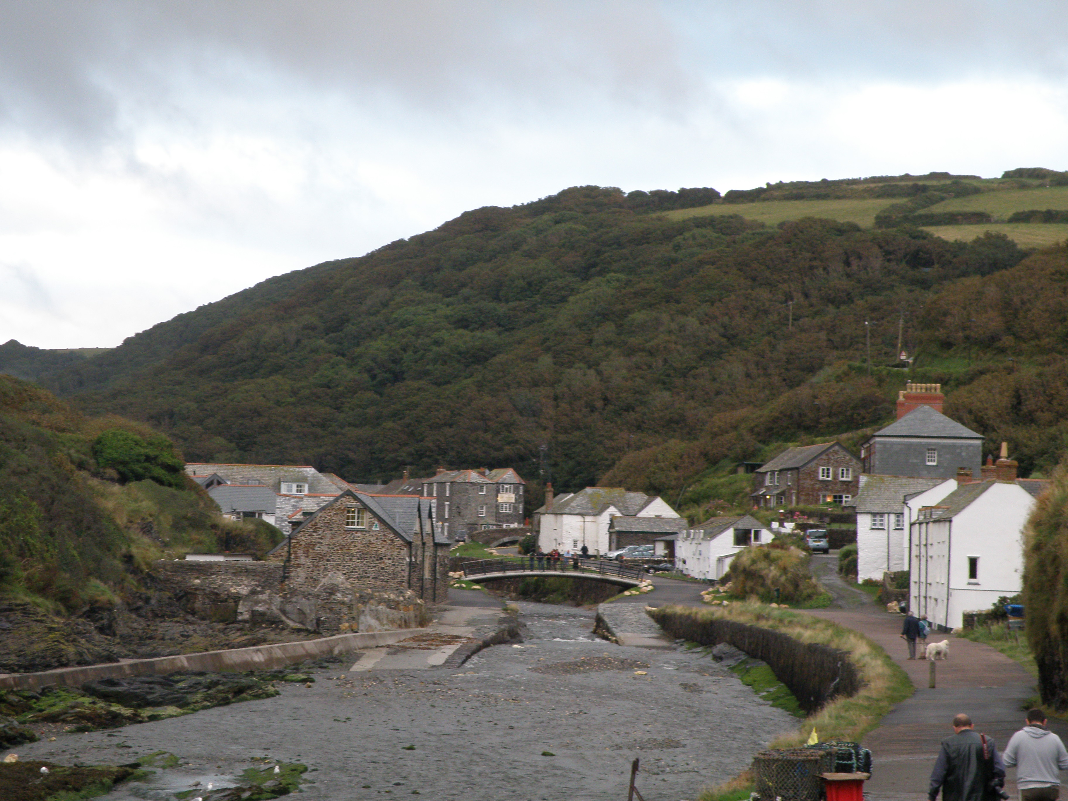 veiw from the path leading to towards the harbour in boscatle